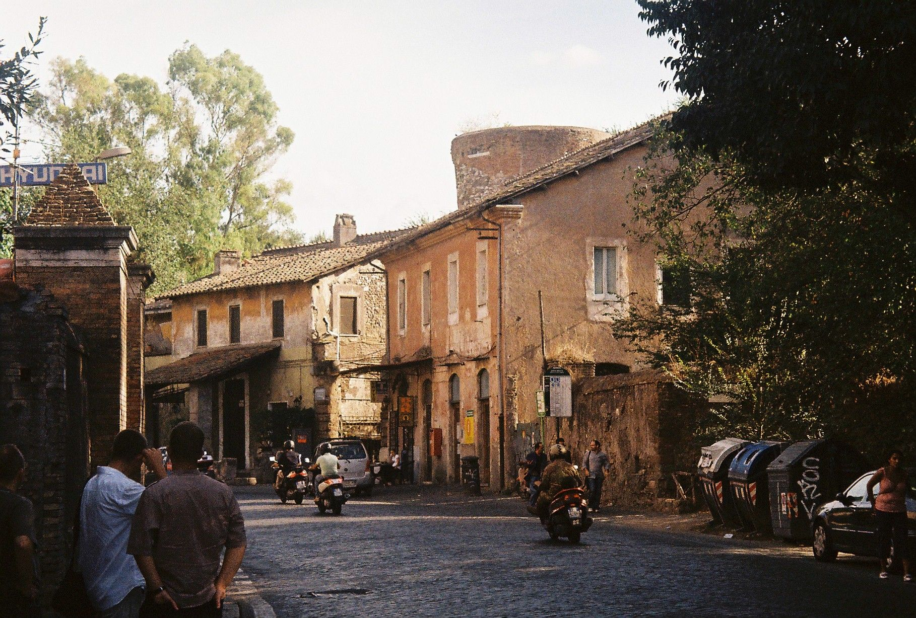 Via Appia near Rome where it is still used by auto traffic